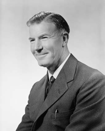 A 1961 black and white portrait of Gordon Freeth, Minister for the Interior and Minister for Works